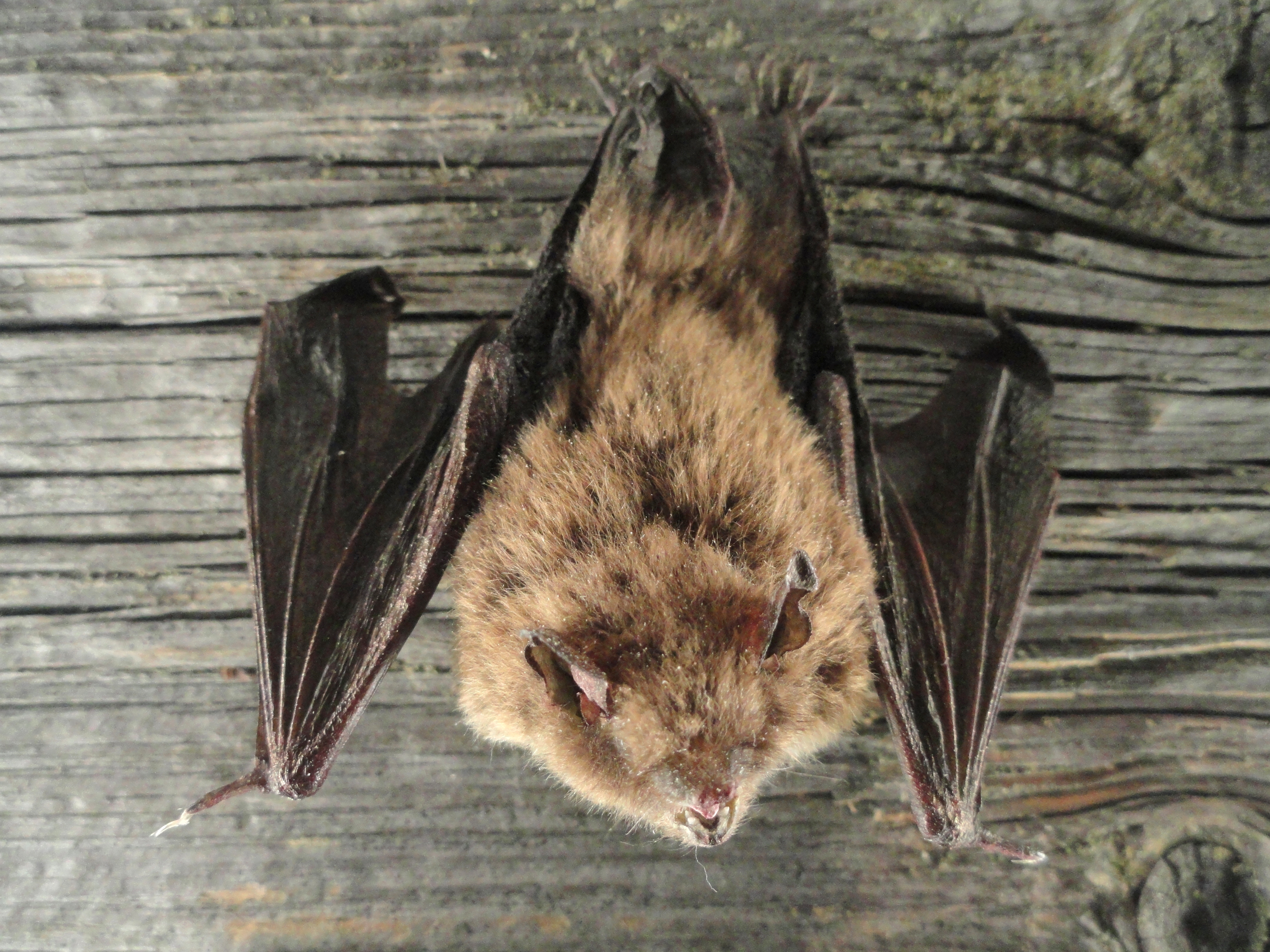 Exhibit in the Finnish Museum of Natural History, Helsinki, Finland.